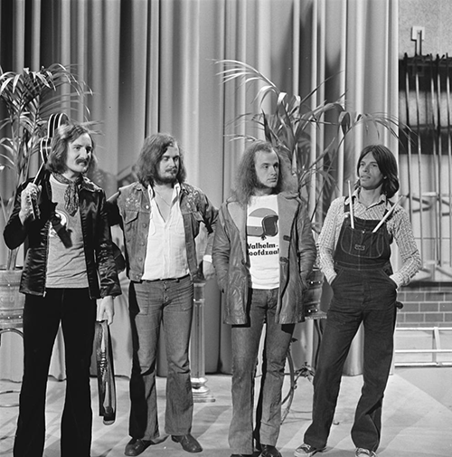 Focus in AVRO's TopPop (Dutch television show) in 1974